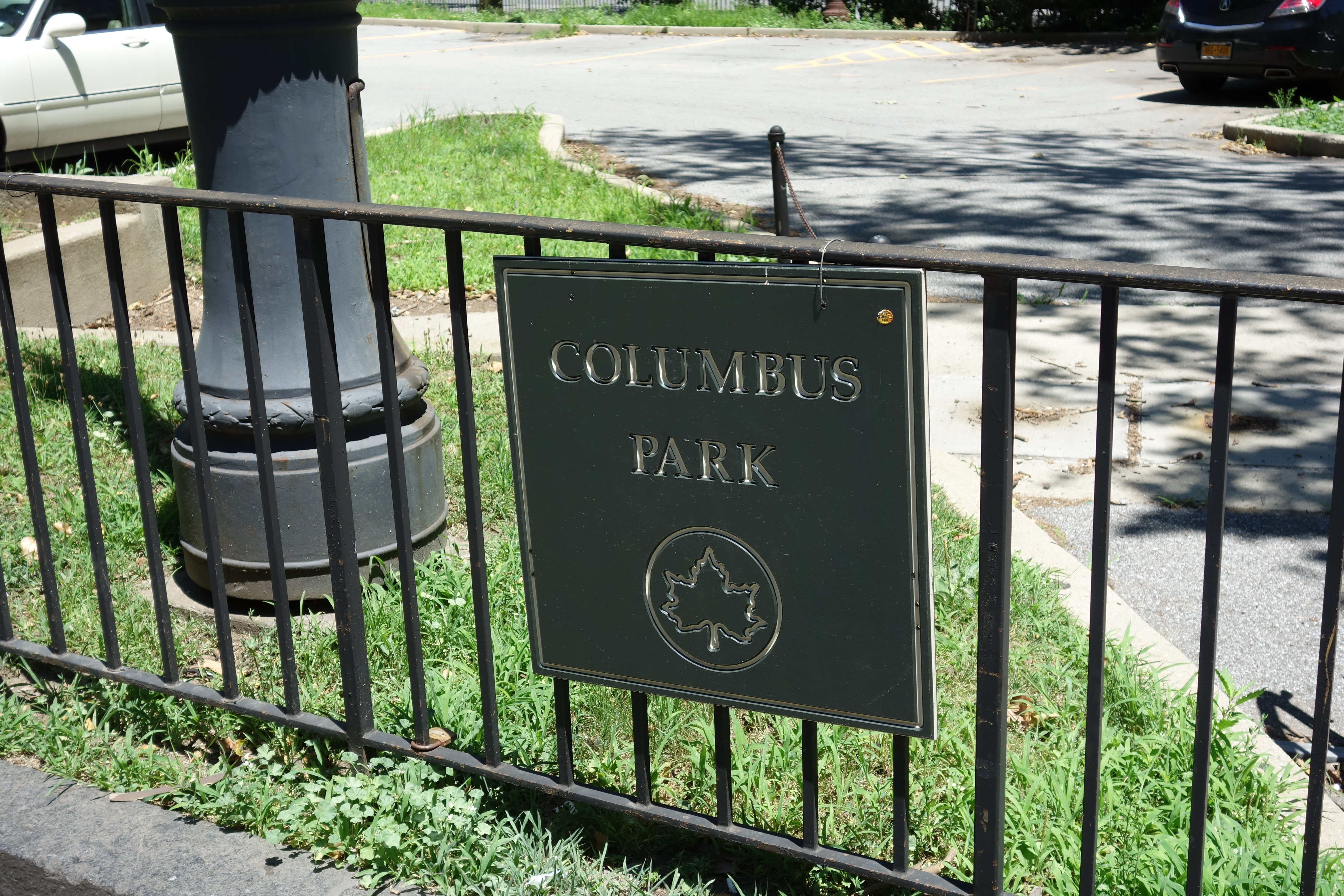 A typical Parks Department sign for Columbus Park adjacent to Brooklyn Borough Hall, at Joralemon Street and Boerum Place / Adams Street in Downtown Brooklyn.